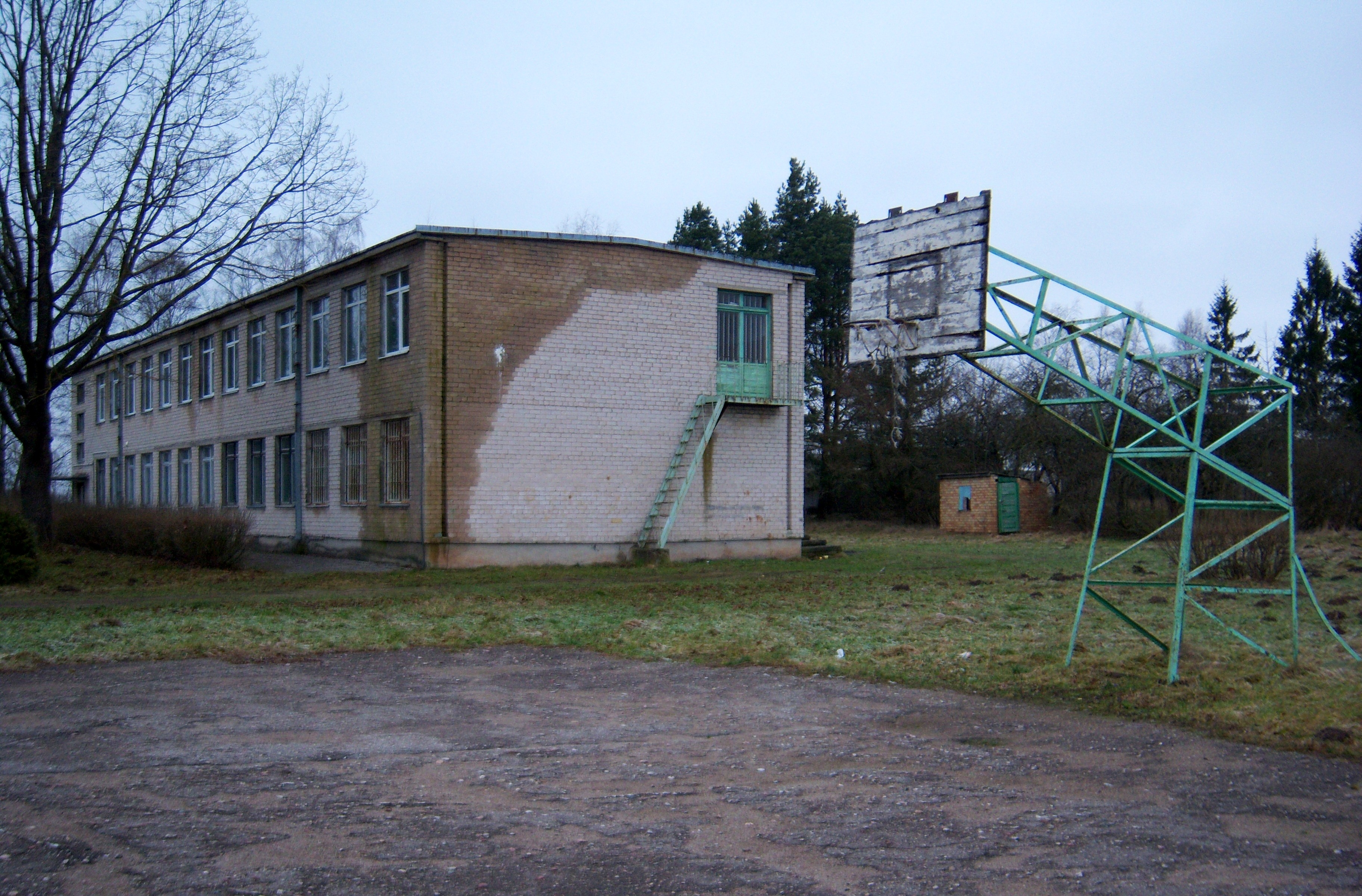 Kiaunoriai school, Kelmė District, Lithuania